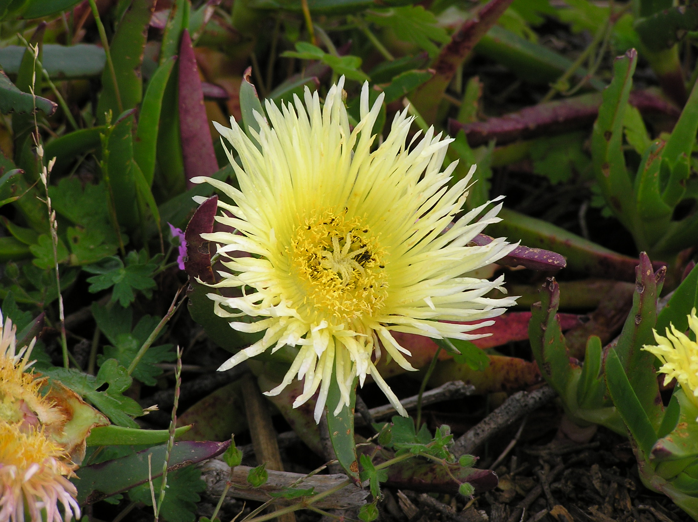 Hottentott Fig (Carpobrutus edulis), West Coast N.P., Western Cape, South Africa